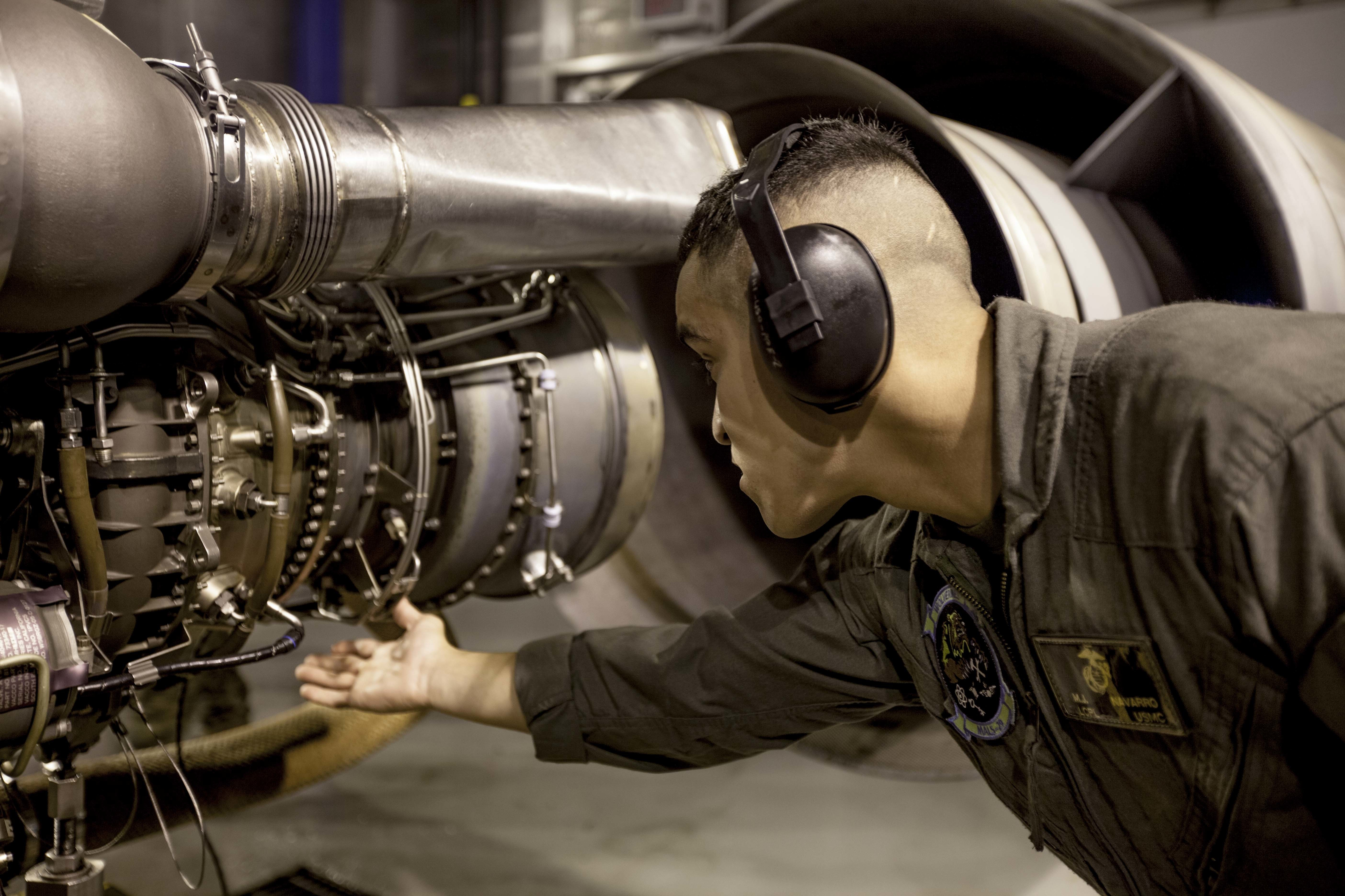 U.S. Marine Corps Lance Cpl. Manuel J. Navarro, a helicopter power plant mechanic assigned to Marine Aviation Logistics Squadron (MALS) 29, checks an AH-1W Super Cobra and a UH-1Y Venom engine for fluid and air leaks aboard Marine Corps Air Station New River, N.C., Oct 18, 2016. MALS-29’s mission is to provide aviation logistics support, guidance, planning, and direction to other squadrons within the Marine Aircraft Group, as well as logistics support for Navy funded equipment in the supporting Marine Wing Support Squadron, Marine Air Control Group, and Marine Aircraft Wing/Mobile Calibration Complex. (Marine Corps Photo by Lance Cpl. Anthony J. Brosilow/Released) Unit: 2nd Marine Aircraft Wing Combat Camera